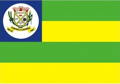 Pontes e Lacerda